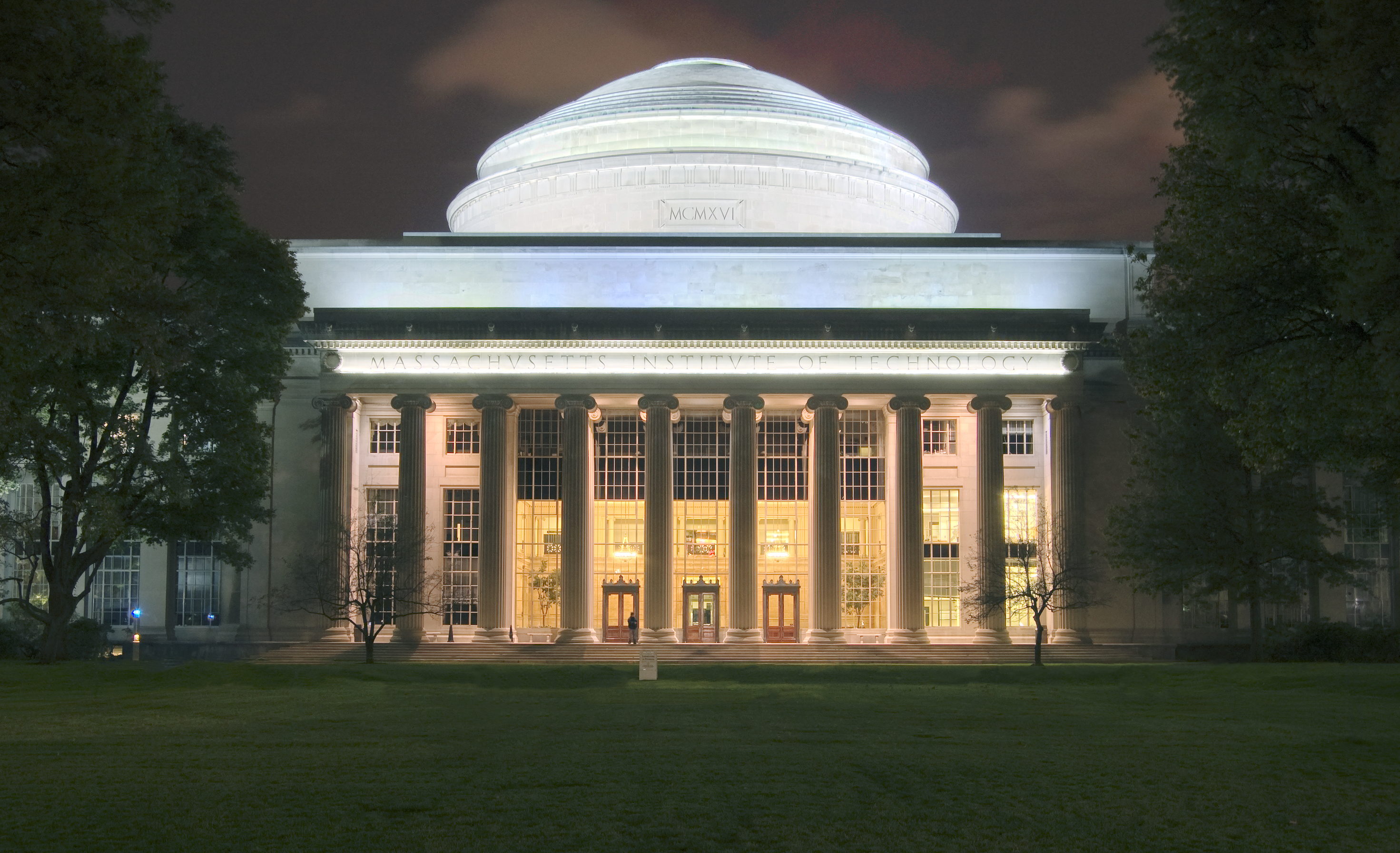 A HDR image of the dome at the MIT campus